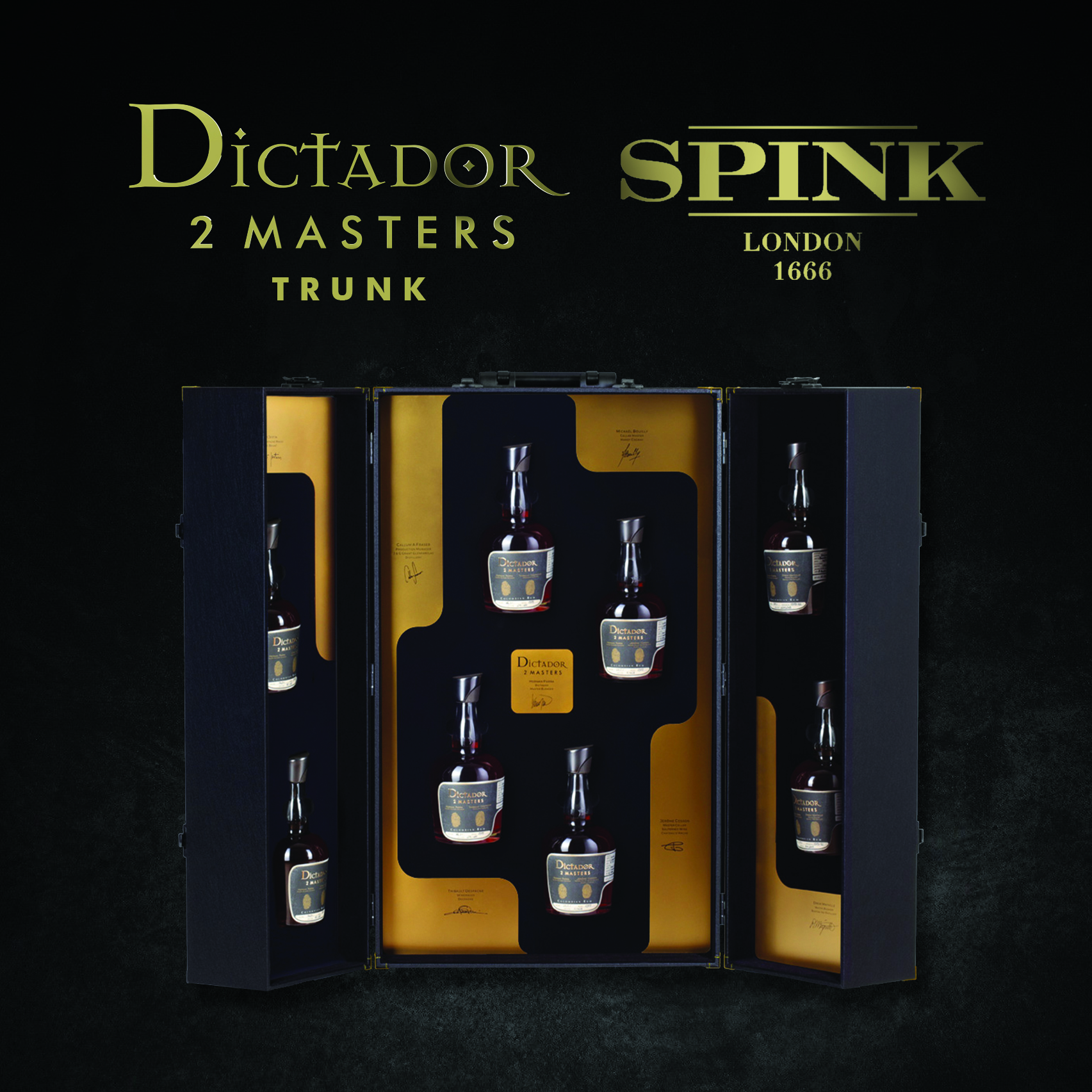 Dictador 2 Masters trunk was sold at SPINK auction for staggering 12'500EUR.